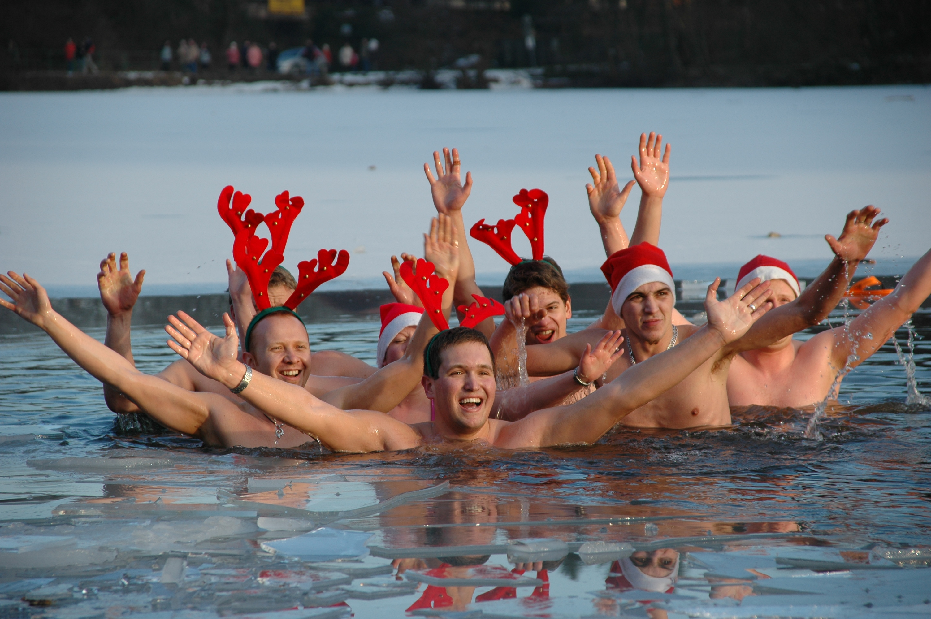 ice swimming in Saarland, Germany